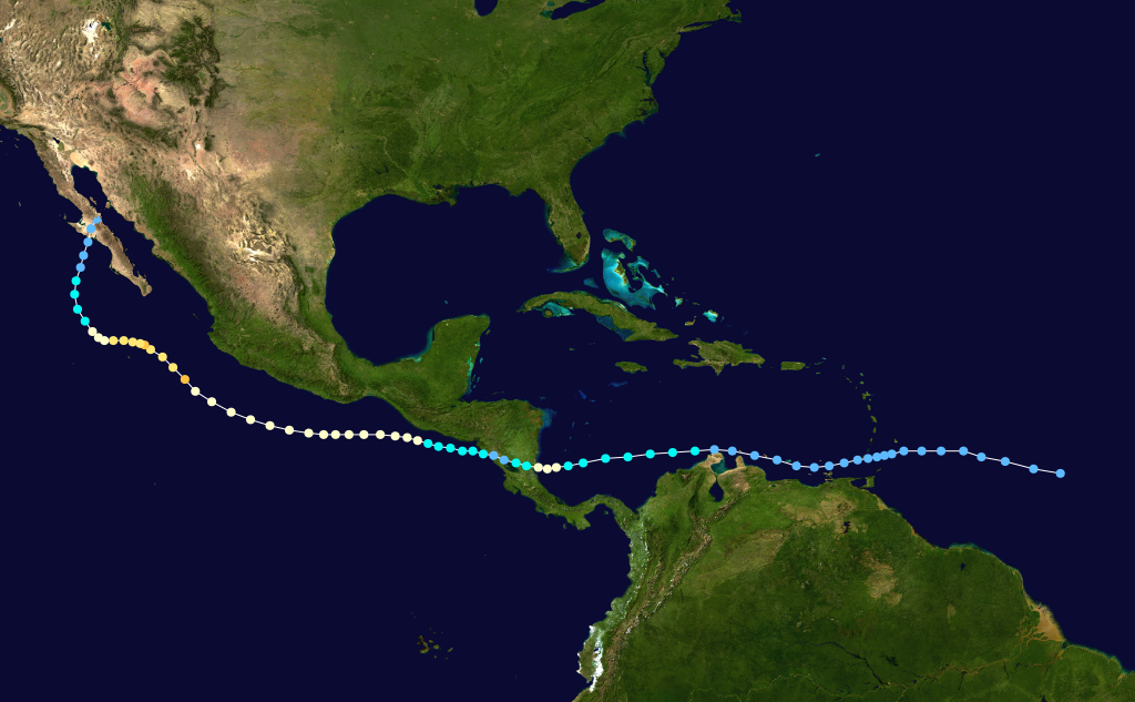 Hurricane Irene-Olivia (1971) track. Uses the color scheme from the Saffir-Simpson Hurricane Scale.